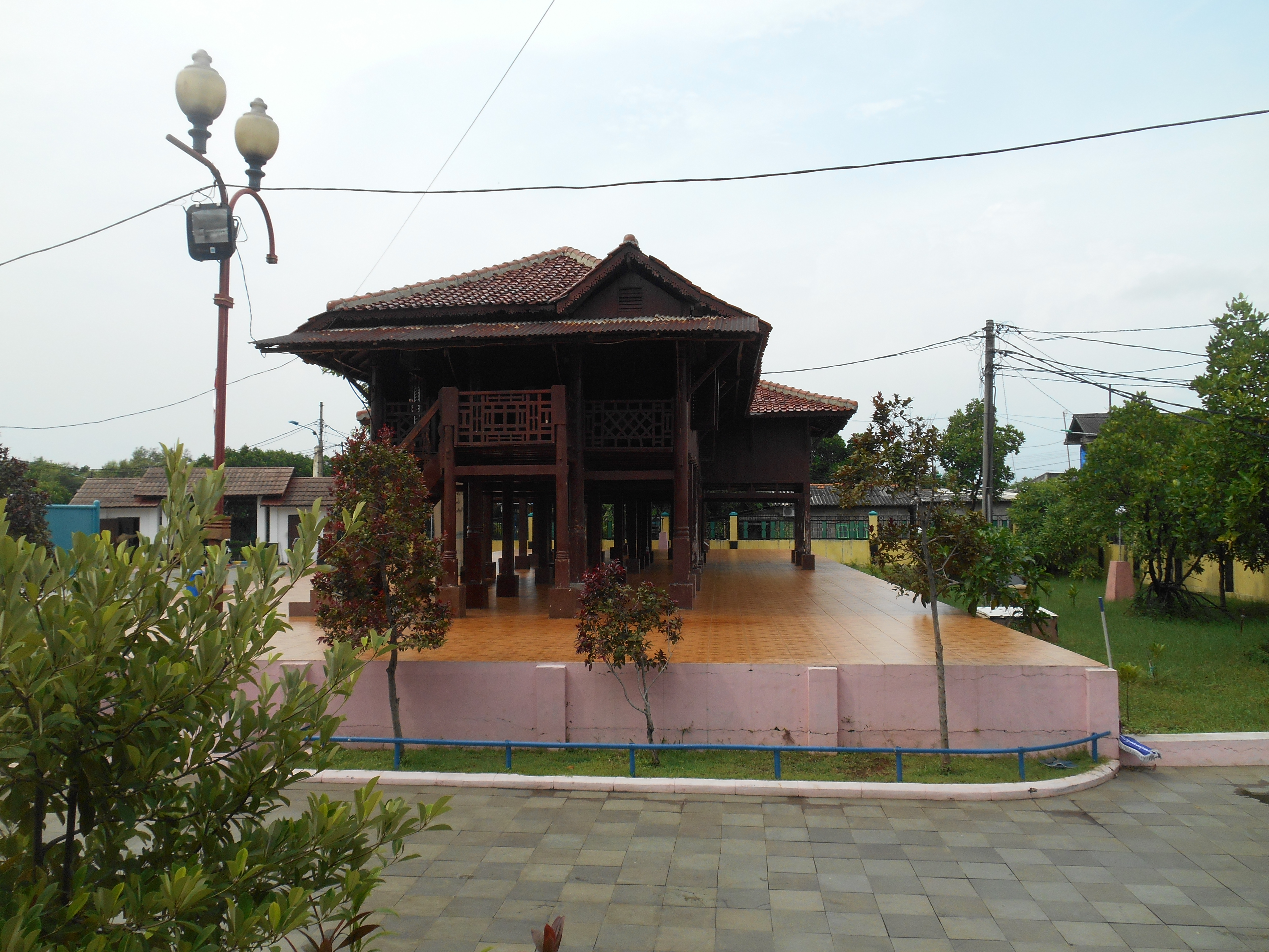 Rumah si PItung di Marunda Jakarta Pusat